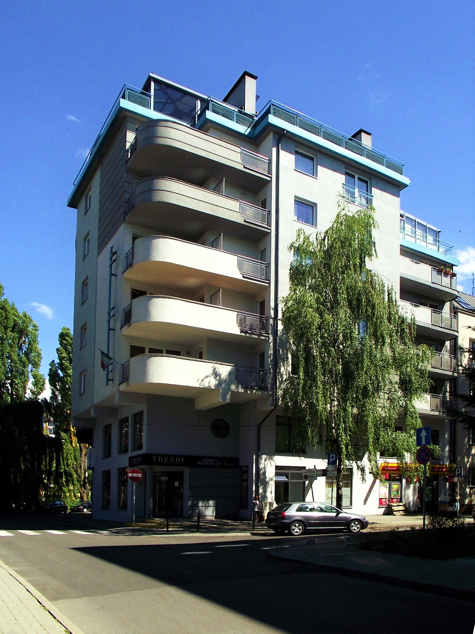 Centro Italiano di Cultura in Bielsko-Biała.